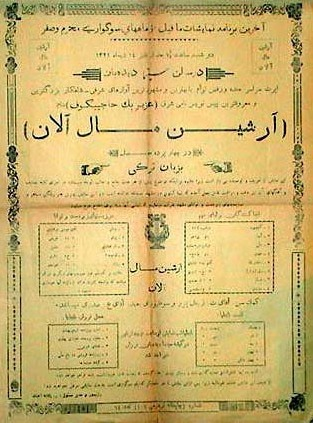 Arshin mal alan in Meshhed (Iran). 1943. Shiri-Khurshid Theatre. Director Rza Yagana Akhundov